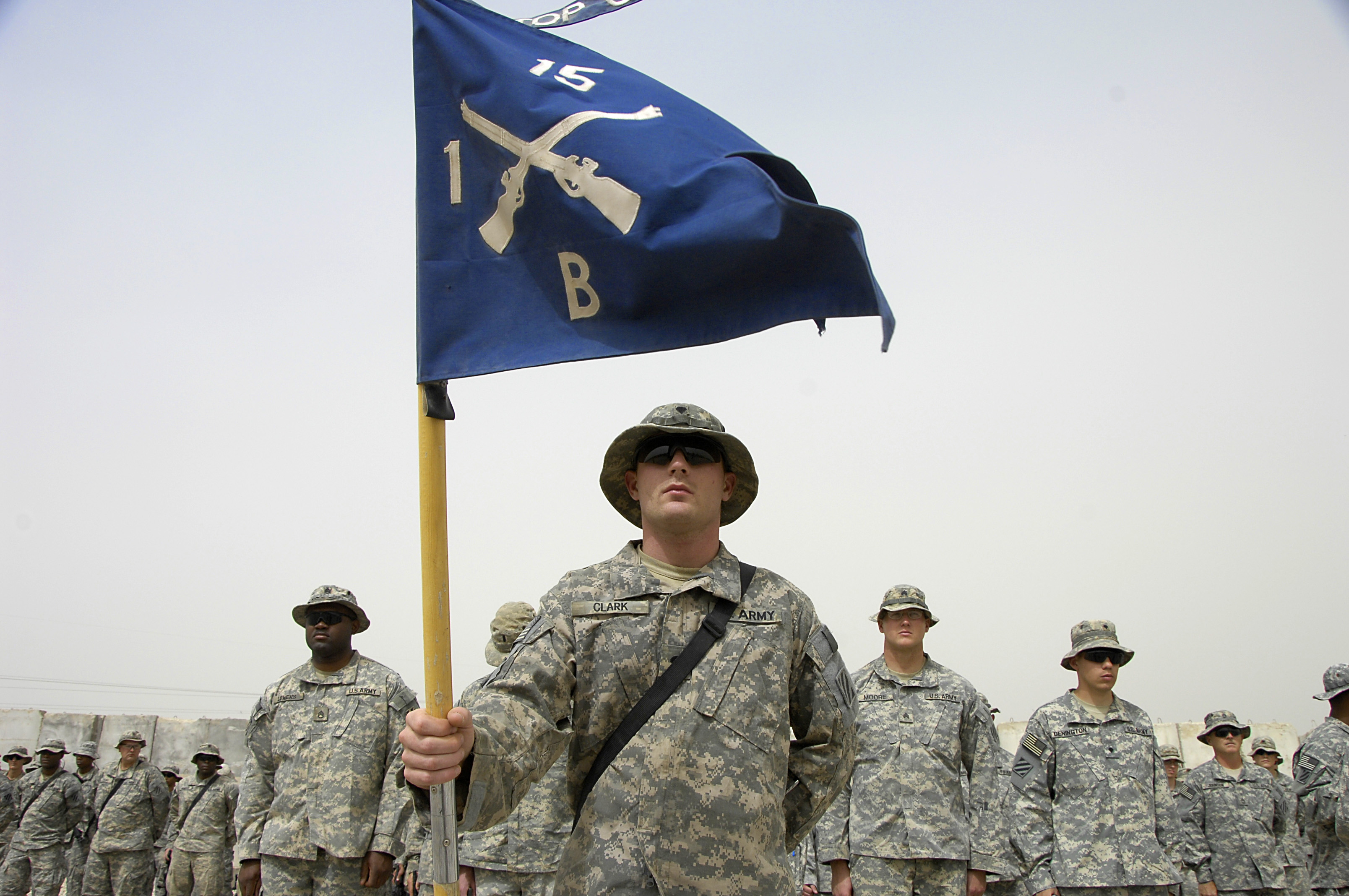 U.S. Army Soldiers from Bravo Company, 1st Battalion, 15th Infantry Regiment, 3rd Heavy Brigade Combat Team, 3rd Infantry Division stand in formation during an award ceremony on Combat Outpost Carver, Iraq, March 31, 2008. At the ceremony the Soldiers received Bronze Stars and Army Commendation medals for their service in Iraq. (U.S. Army photo by Spc. Daniel Herrera) (